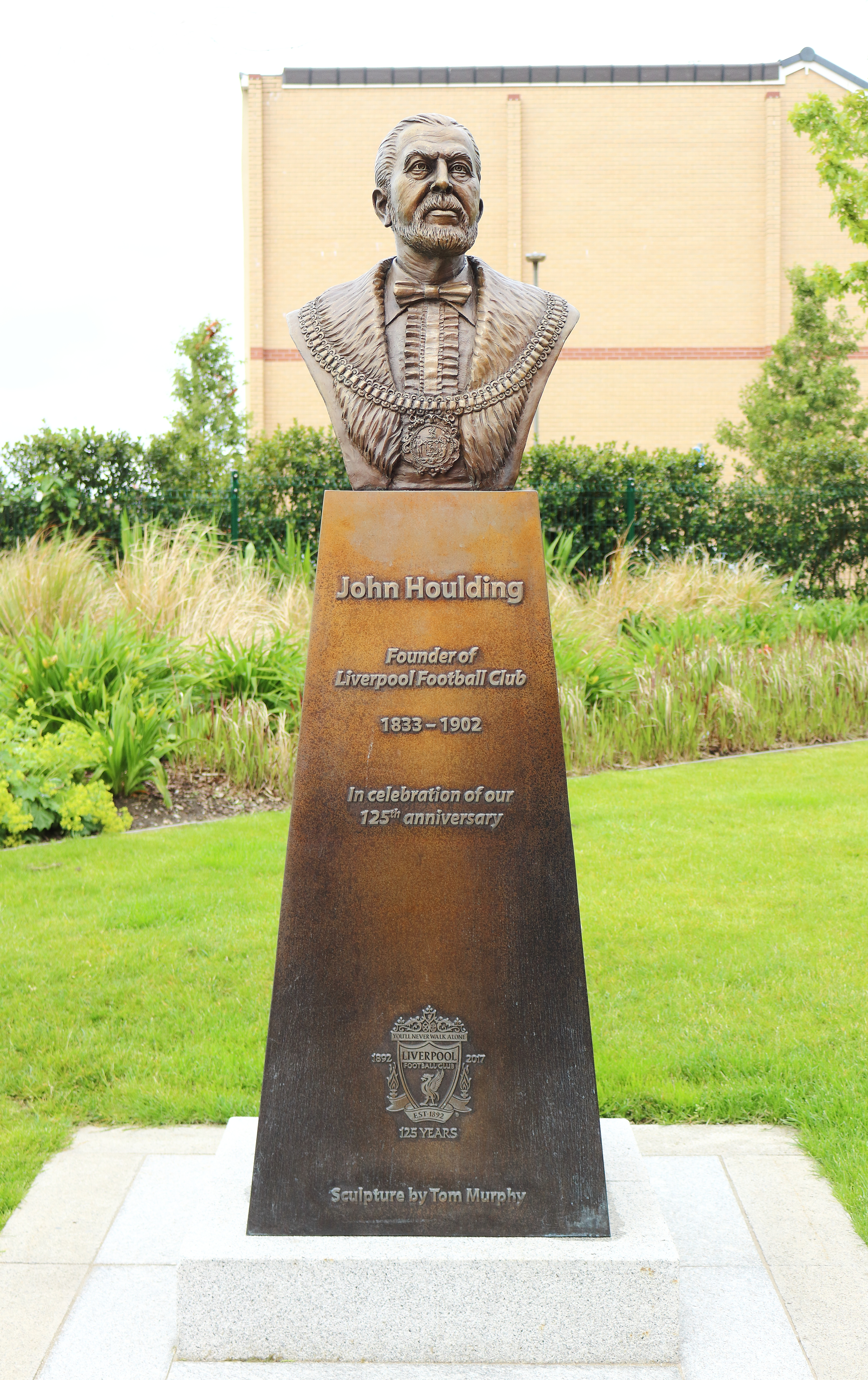 Bust of John Houlding, founder of Liverpool FC on a plinth at the southern ened of 96 Avenue, Anfield Stadium, Liverpool, by Tom Murphy.